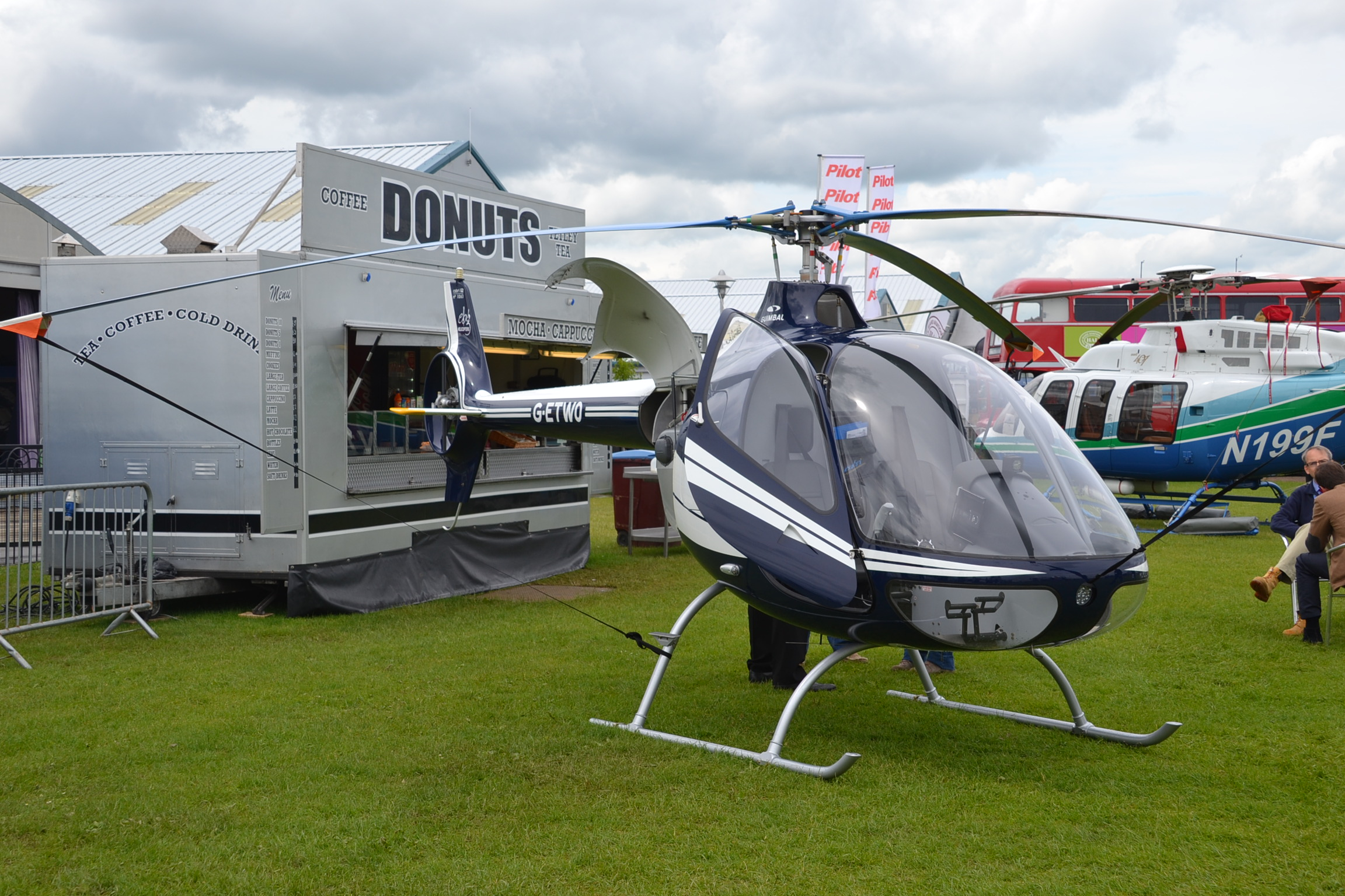 Guimbal G-2 at Heli UK Expo,Sywell, N'hants., 03/06/14.